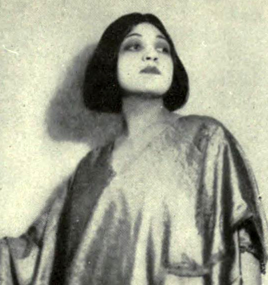 Portrait of Rosa Ponselle